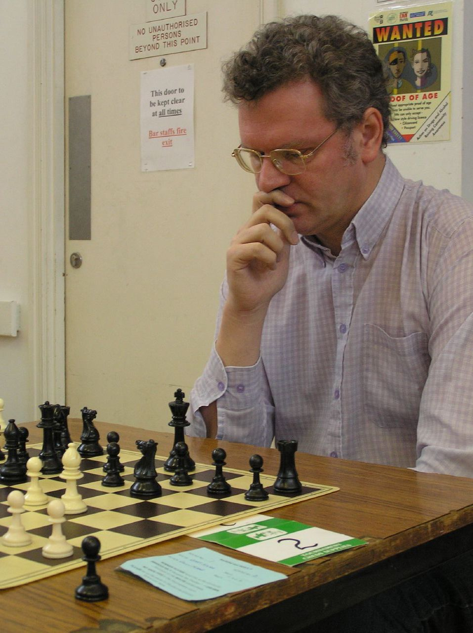 Colin McNab at the Richmond rapid tournament, January 2006